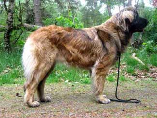 Leonberger Diglow's Moyra Lass of Usquebaugh